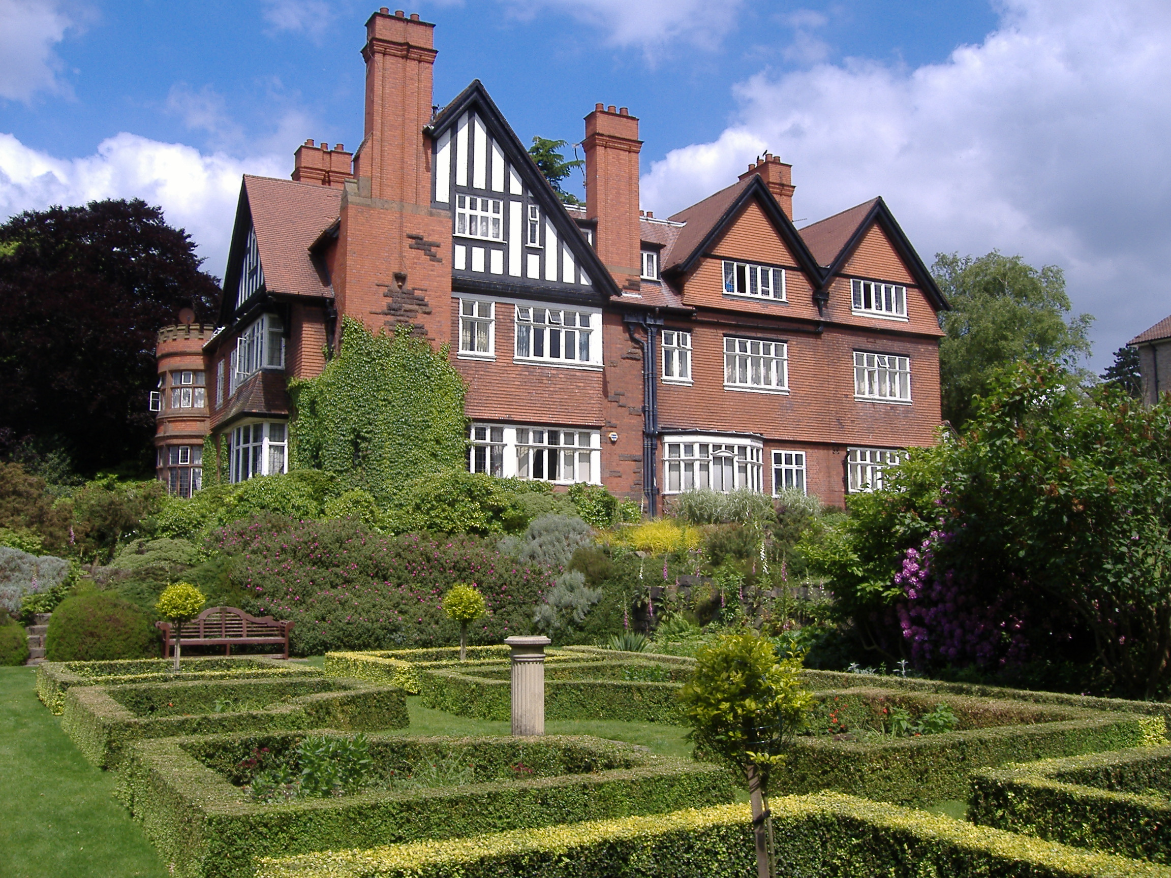 Lenton Hurst and The Jekyll Garden.